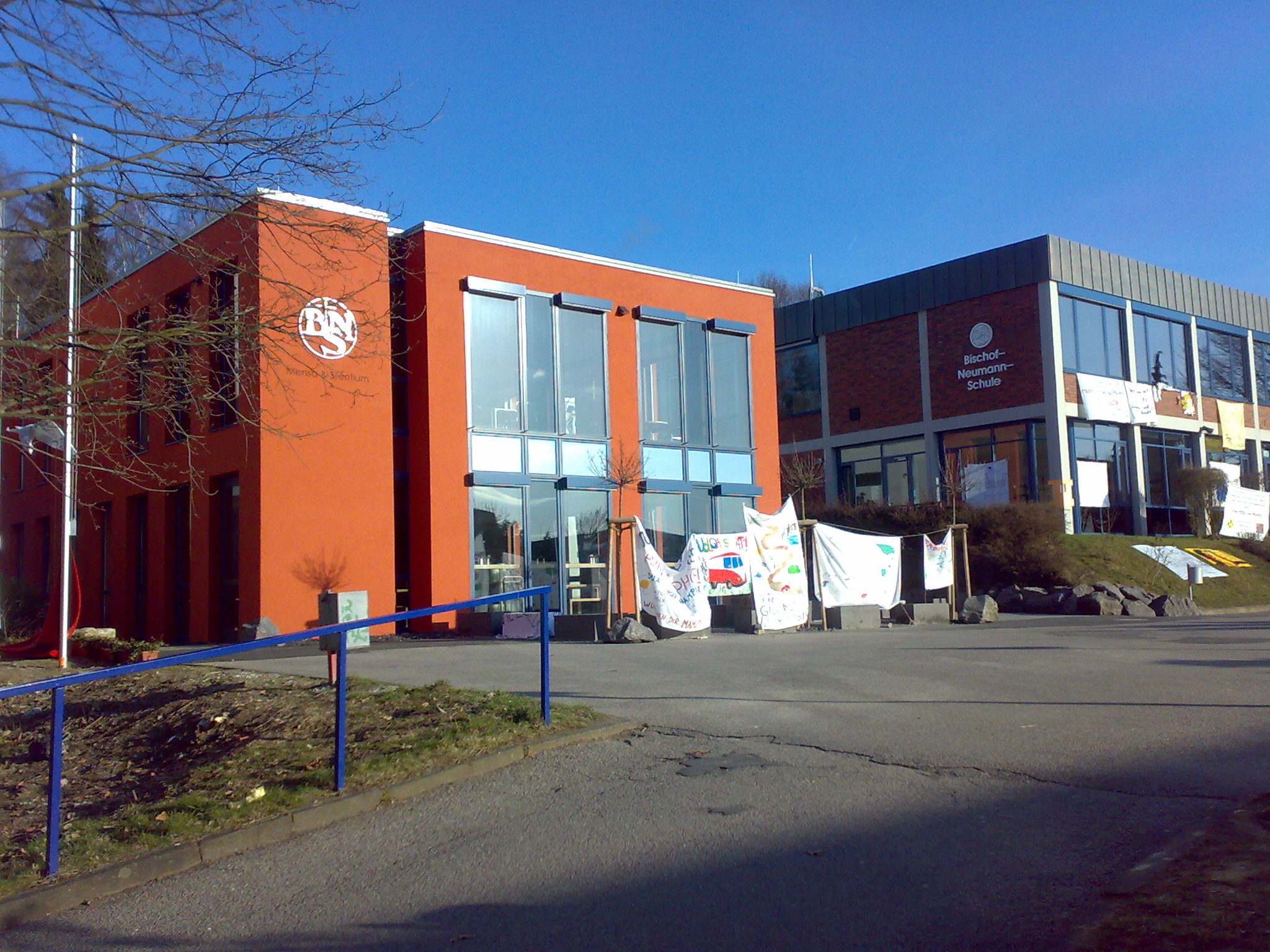 Bishop-Neumann-School in Königstein im Taunus, Germany